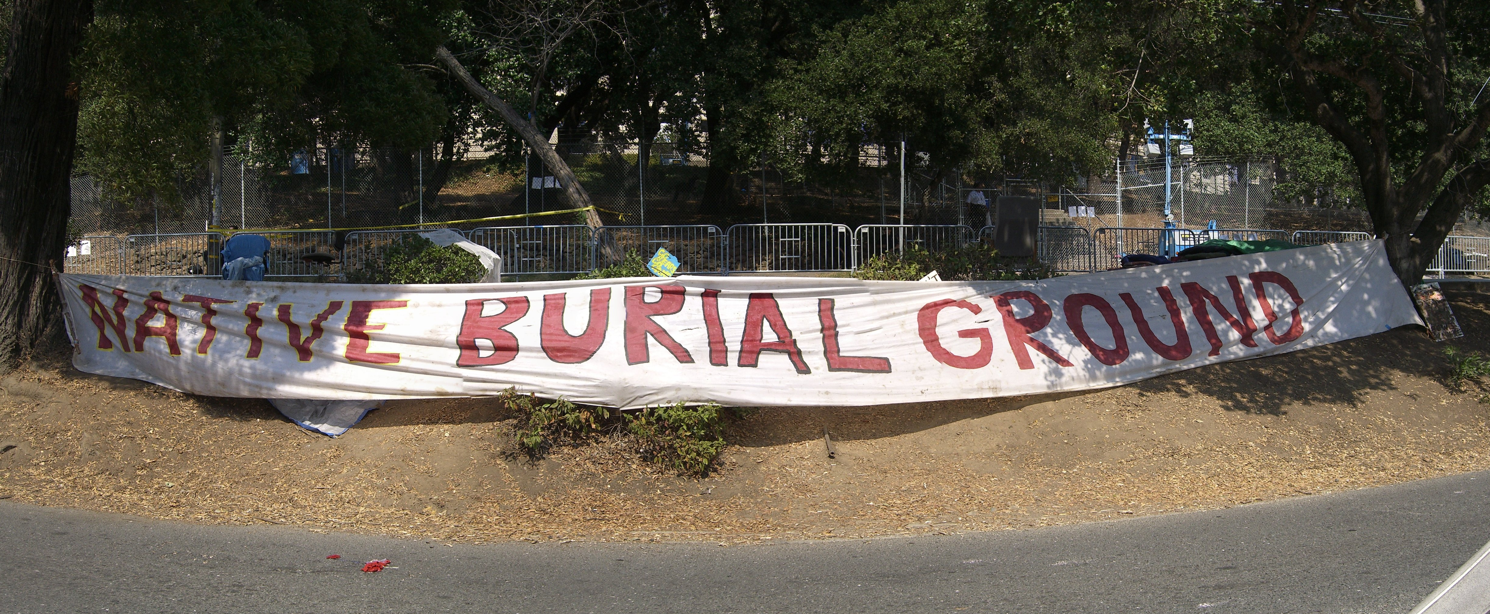 A sign hung by the tree-sitters protesting the removal of trees by the University of California, Berkeley in preparation for a new athletic center.